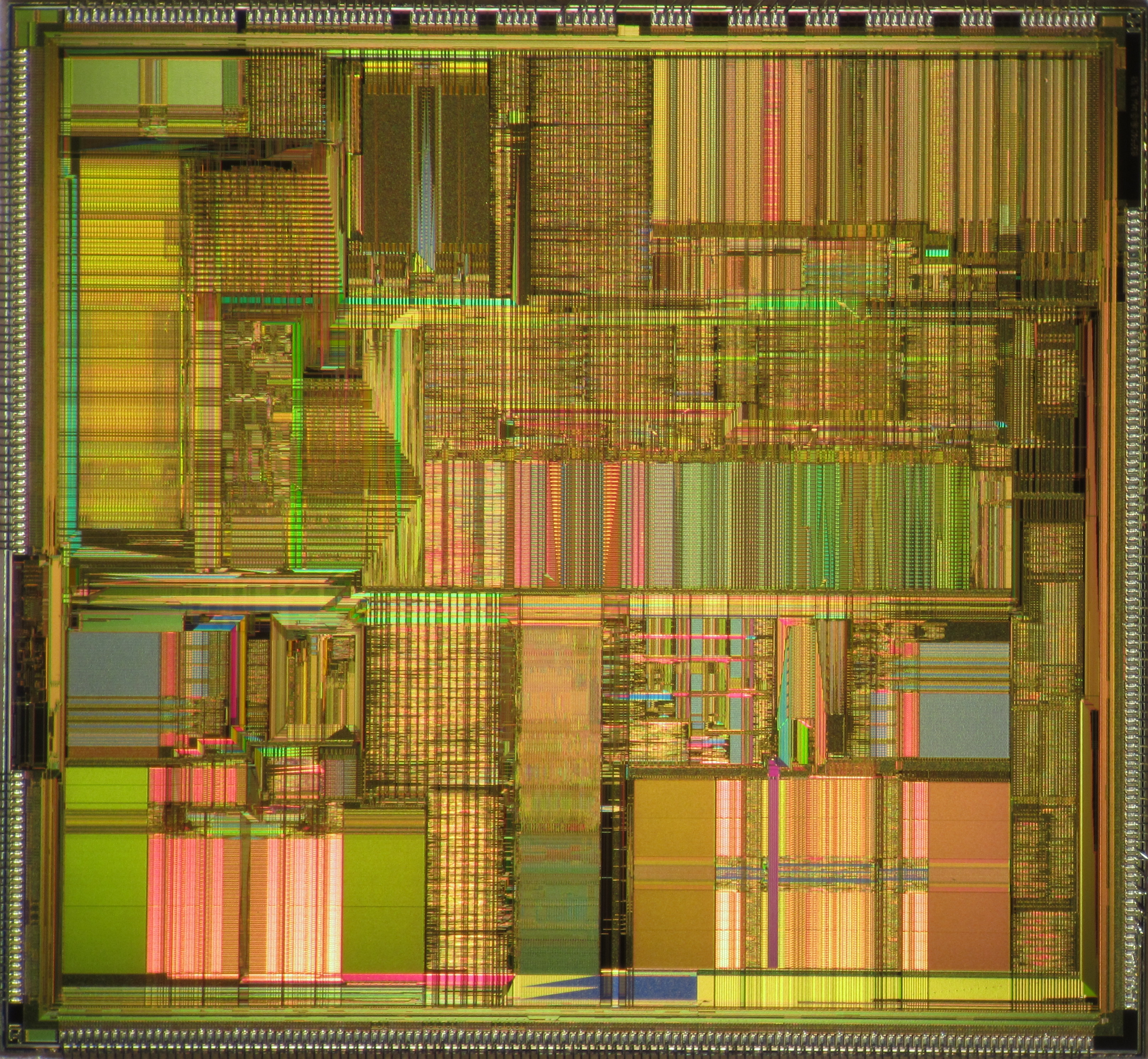 Die shot of Intel Pentium with P54C core (100 MHz SX963).